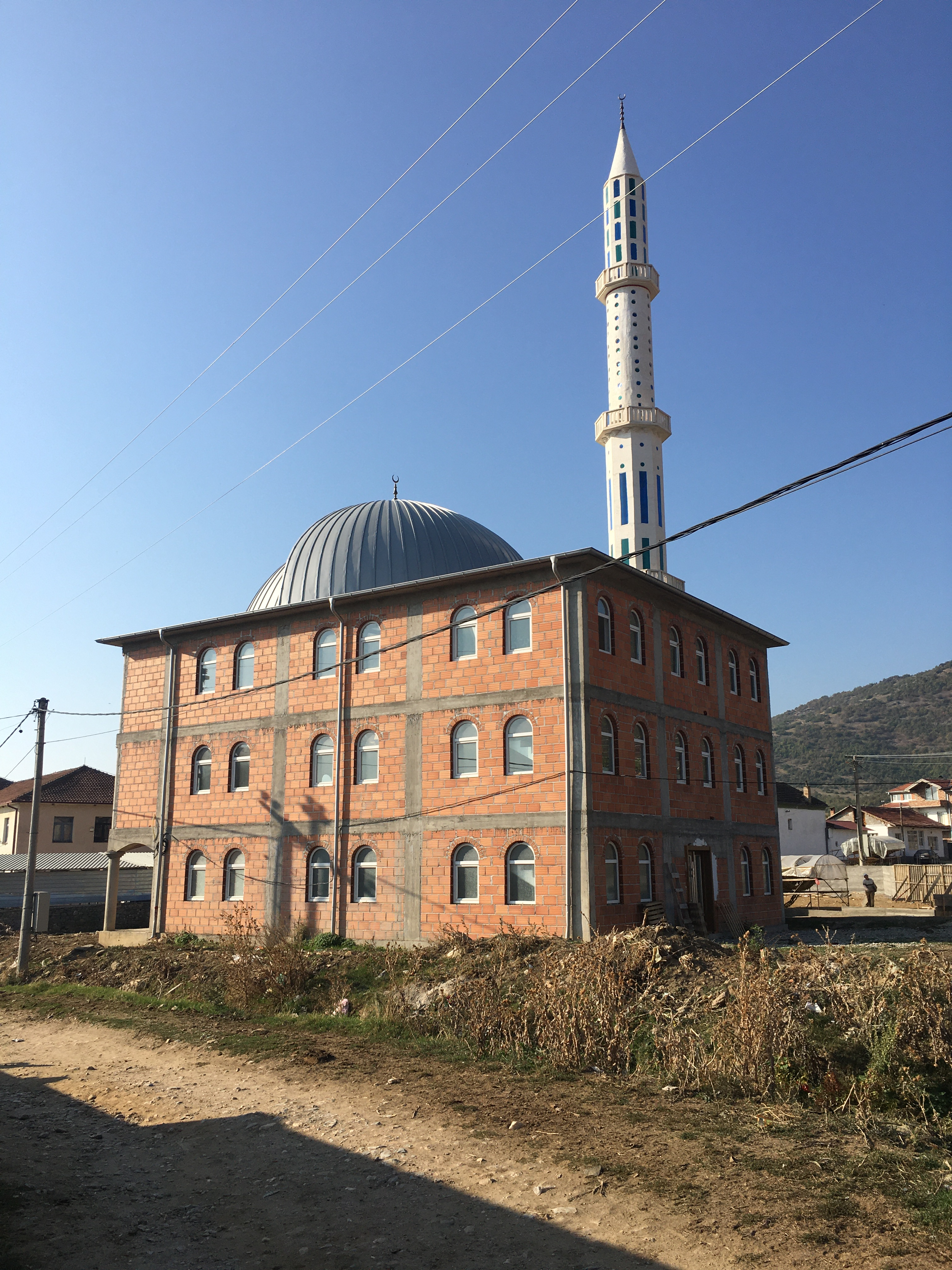 Gorna Džamija in the village of Debrešte